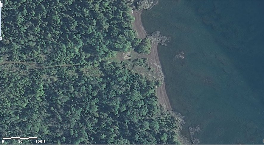 Screenshot showing the Keweenaw Rocket Range. The small square structure along the coastline is what's left of the facility.